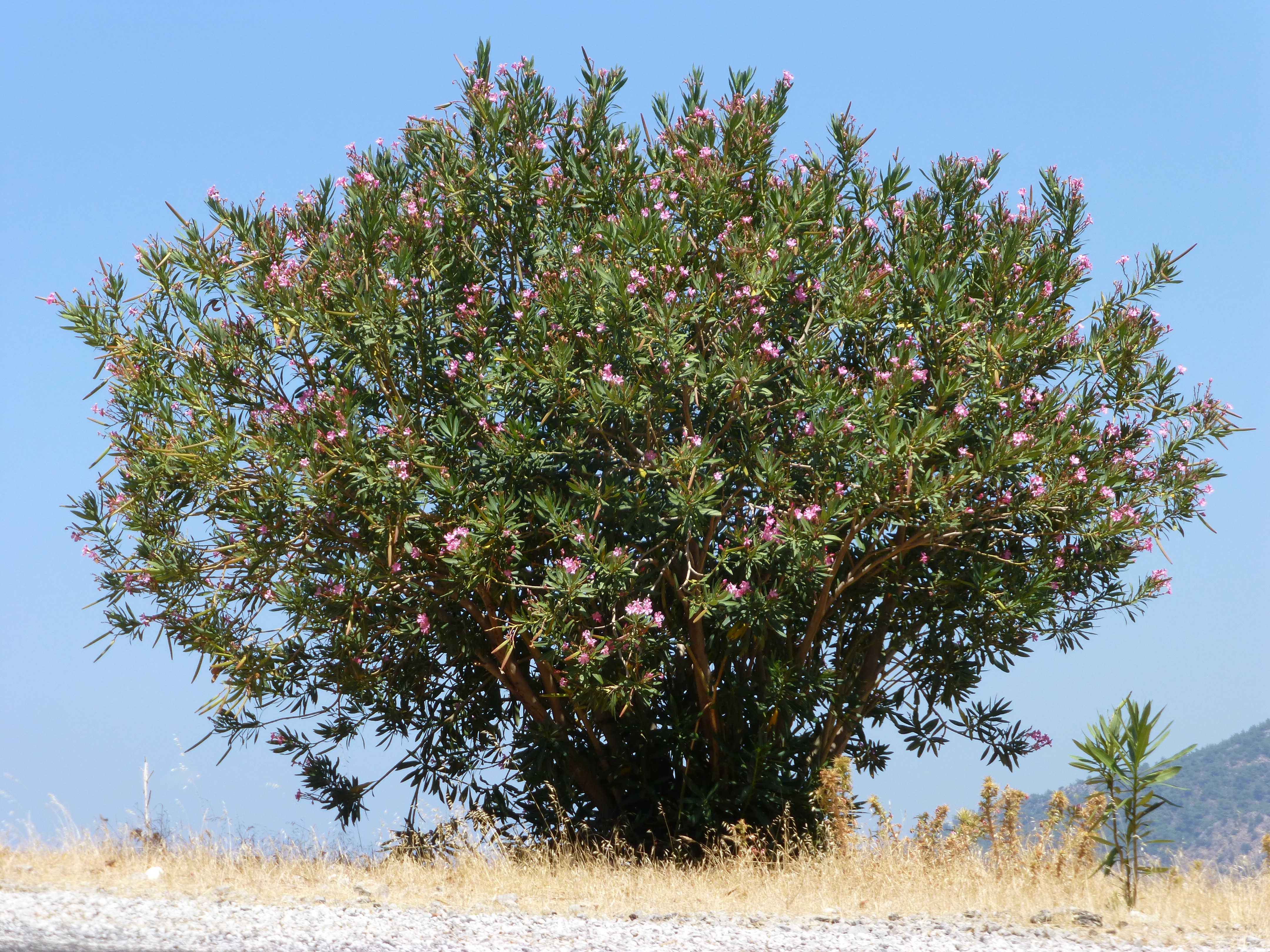 Nerium oleander, Marmaris, Turkey